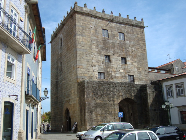 The New Gate Tower Barcelos